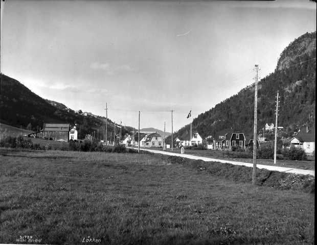 Gravel road through Løkken in Meldal, Norway.